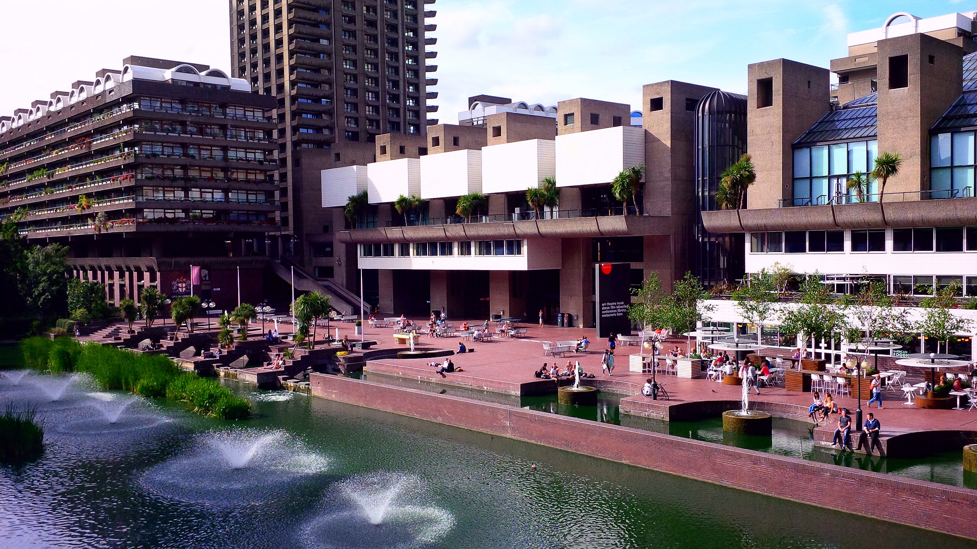 Barbican Centre in City of London (internal terrace).